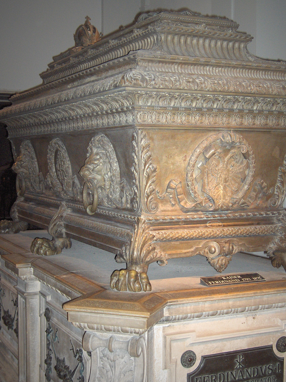 Tomb of Emperor Ferdinand I of Austria (1793 - 1875); Kaisergruft, Vienna